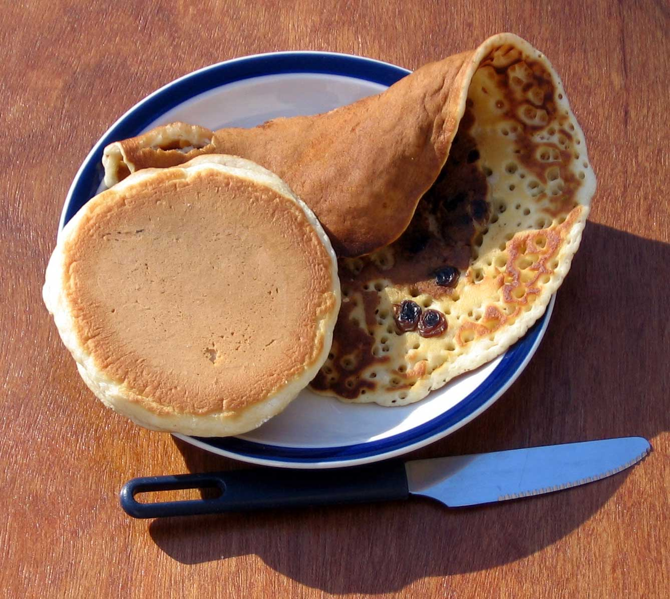 Scotch pancake and Scottish crumpet: the pancake is about 110 mm (4 inches) diameter and 18 mm (3/4 inch) thick, and the crumpet about 180 mm (7 inches) diameter and 8 mm (3/8 inch) thick. Photograph taken 6 February 2006 by User:Dave souza. Any re-use to contain this licence notice and to attribute the work to User:Dave souza at Wikipedia.